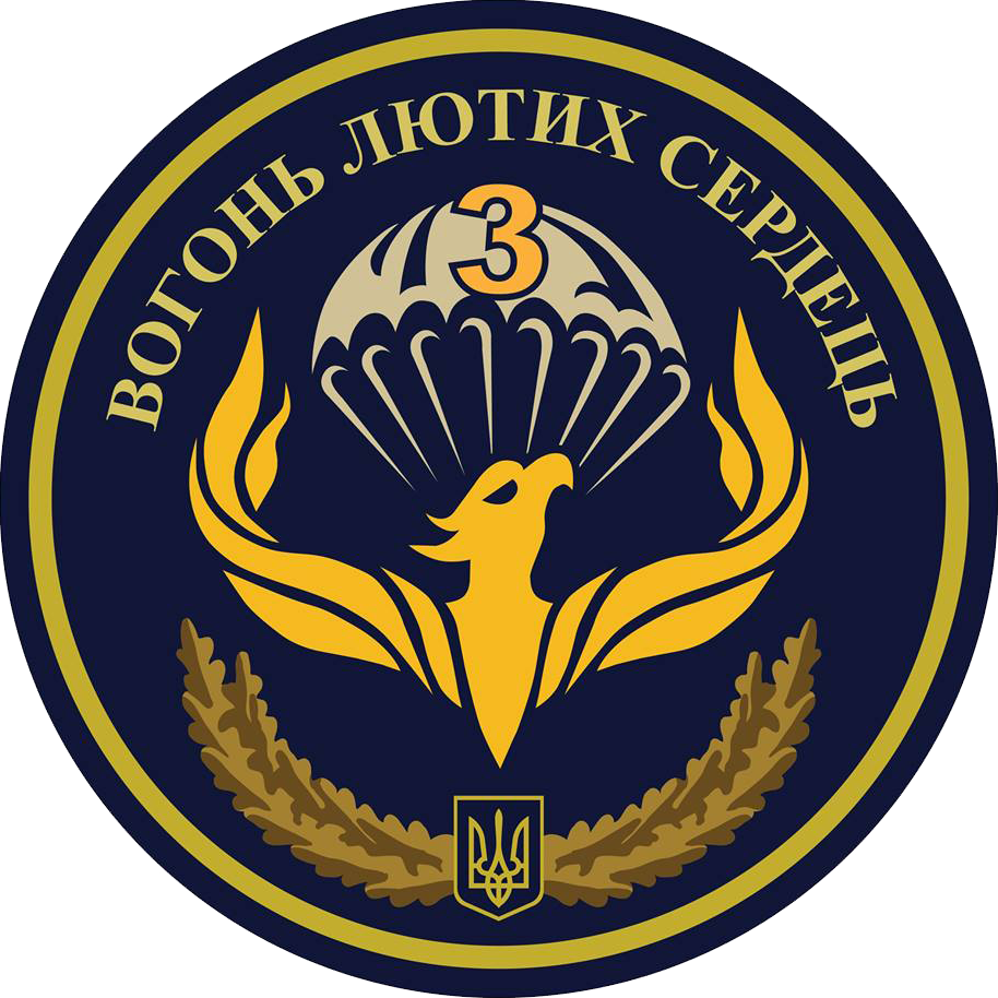 Sleeve patch for the 3rd Battalion "Phoenix" of the 79th Airmobile Brigade